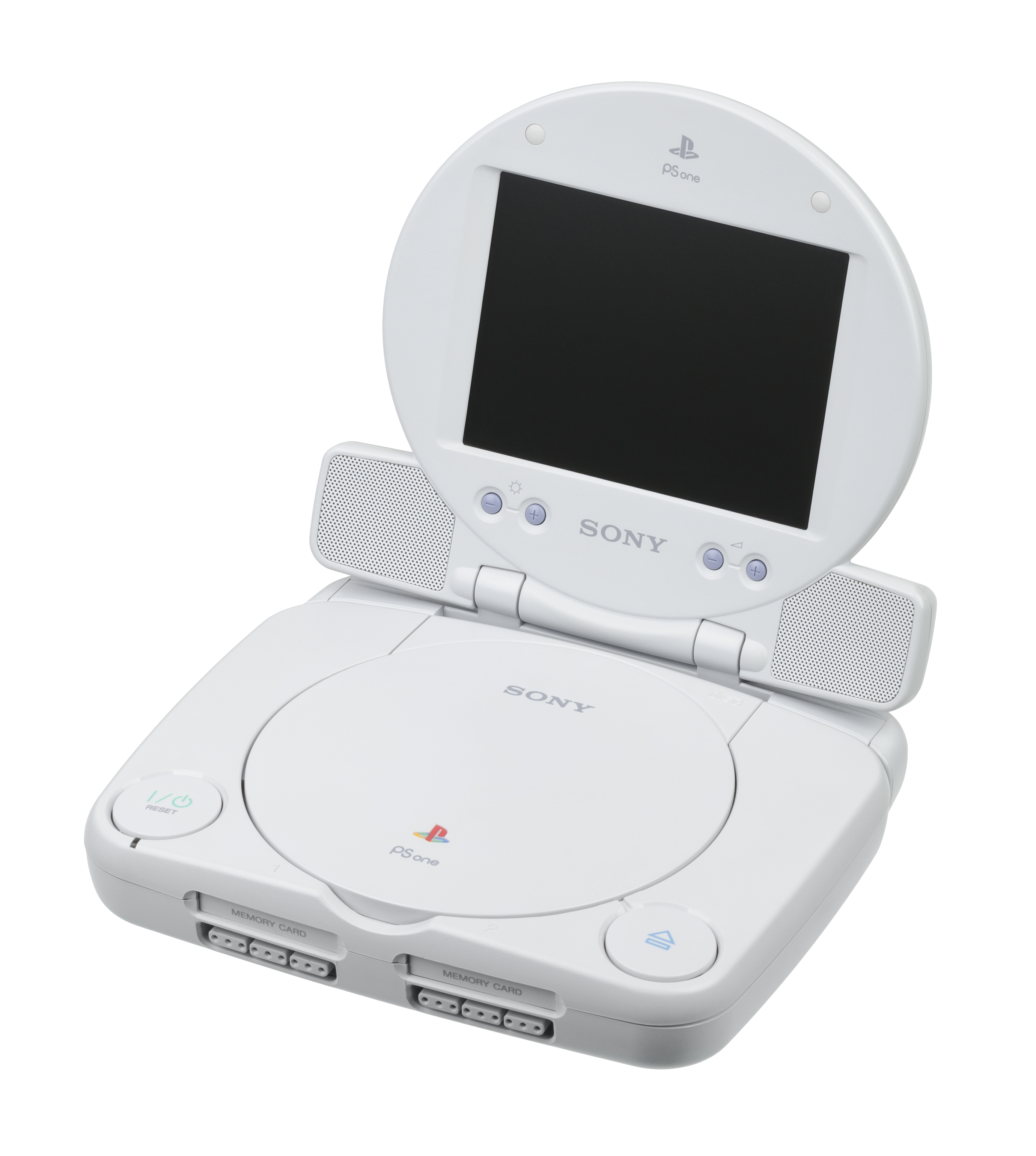 The Sony PlayStation video game console. This is the PSone model, the last hardware revision that came with a new, much smaller form factor. The console is shown with the optional LCD screen that was released alongside or packed in with console.